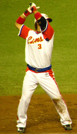 Hiroyuki Nakajima, infielder of the Saitama Seibu Lions, at Seibu Dome.